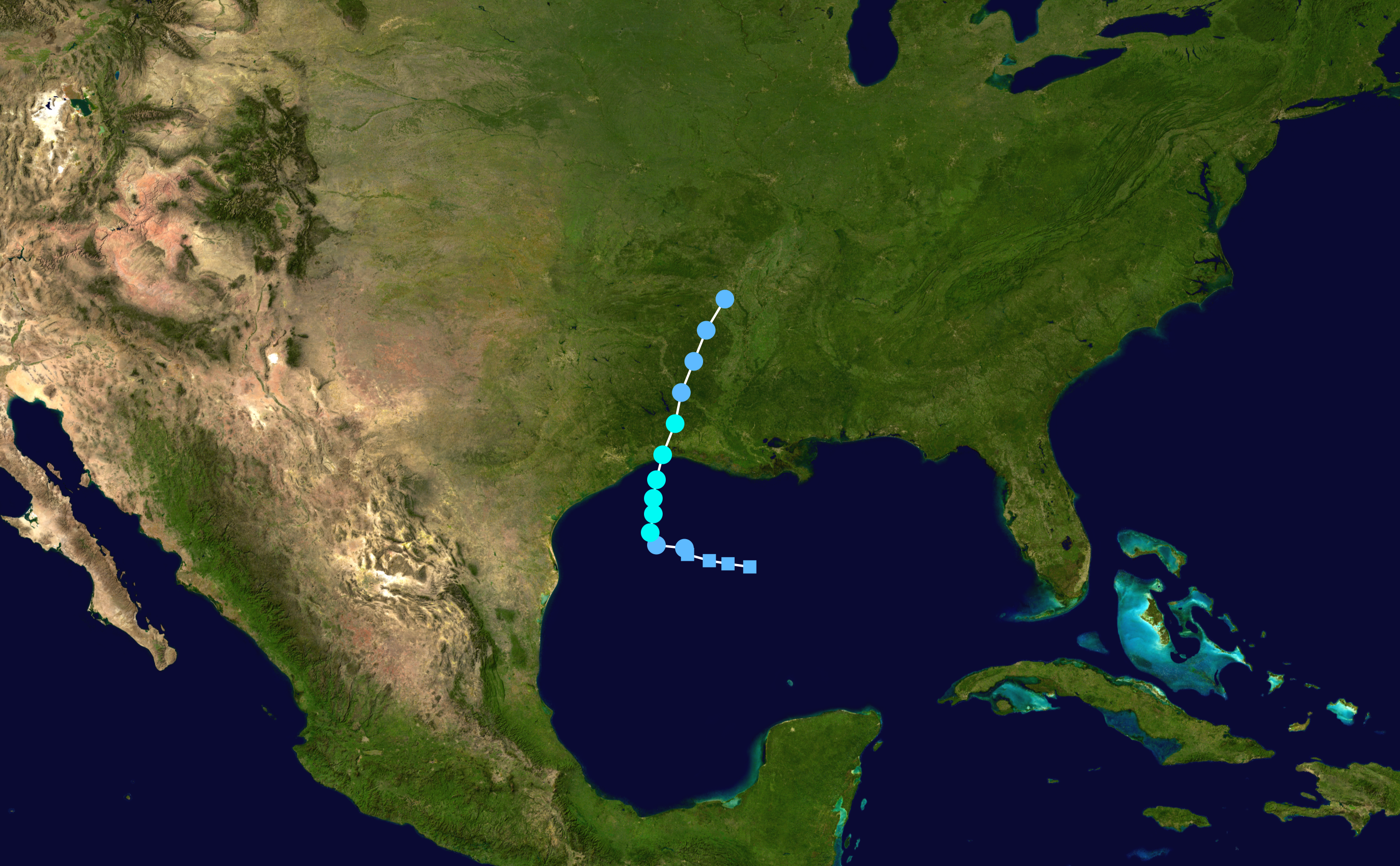 Tropical Storm Chris (1982) track. Uses the color scheme from the Saffir-Simpson Hurricane Scale.